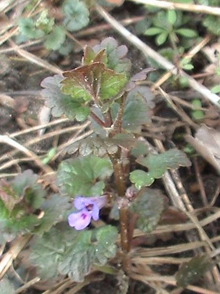 Glechoma hederacea (Habitus)